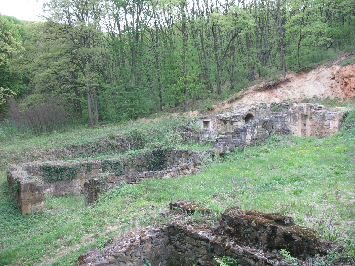 View of remains of residental objects for despot Stefan Lazarević in Monastery Kastaljan (Kasteljan) in Nemenikuće on Kosmaj, near Mladenovac, Serbia.